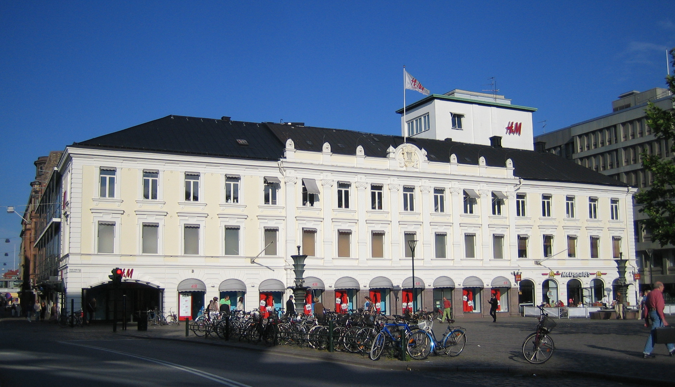 Malmo Theater, a former theater at Gustav Adolf's square in Malmö. Nowadays, the building houses McDonald's, H&M, etc.